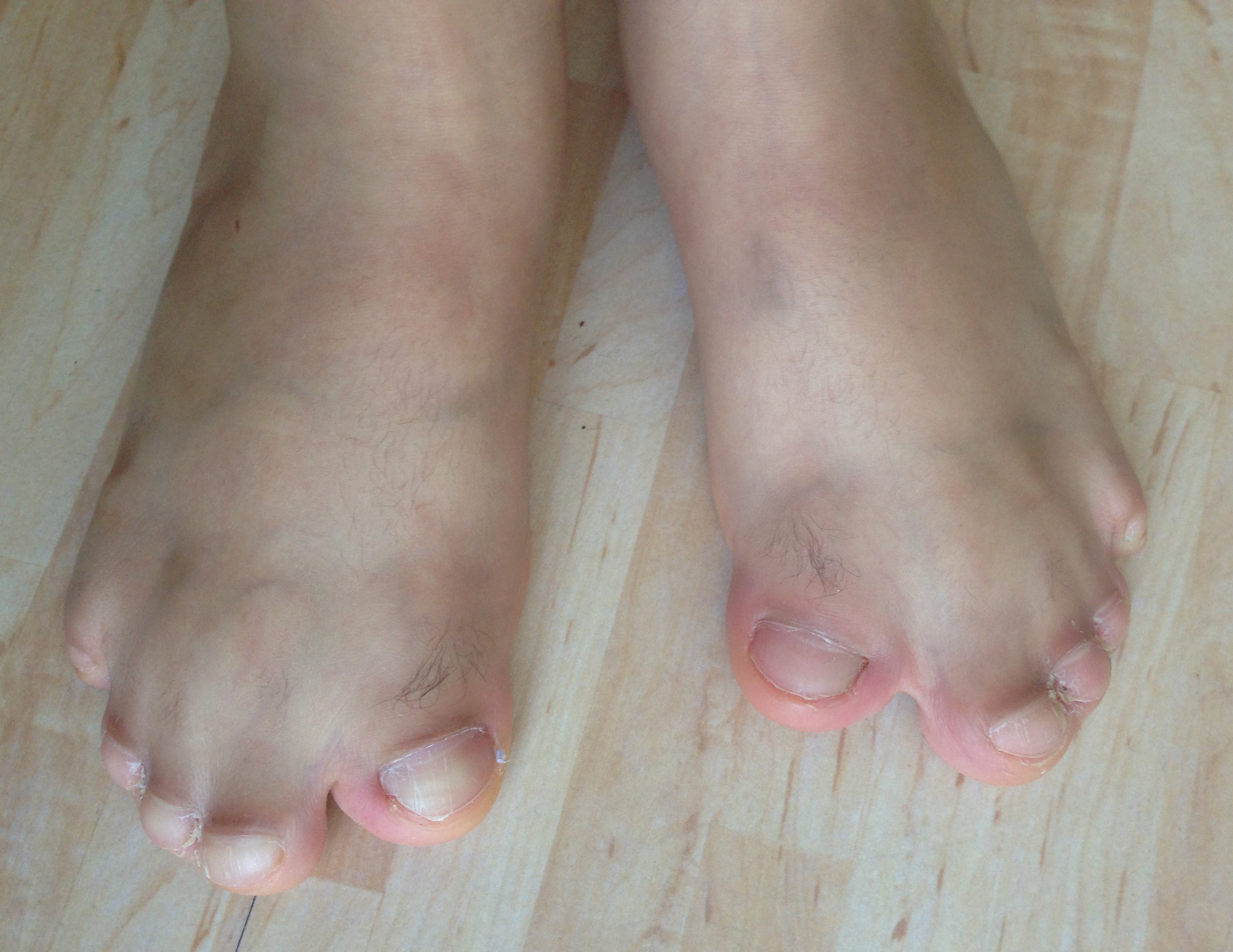 Feet of a child with Apert syndrome.